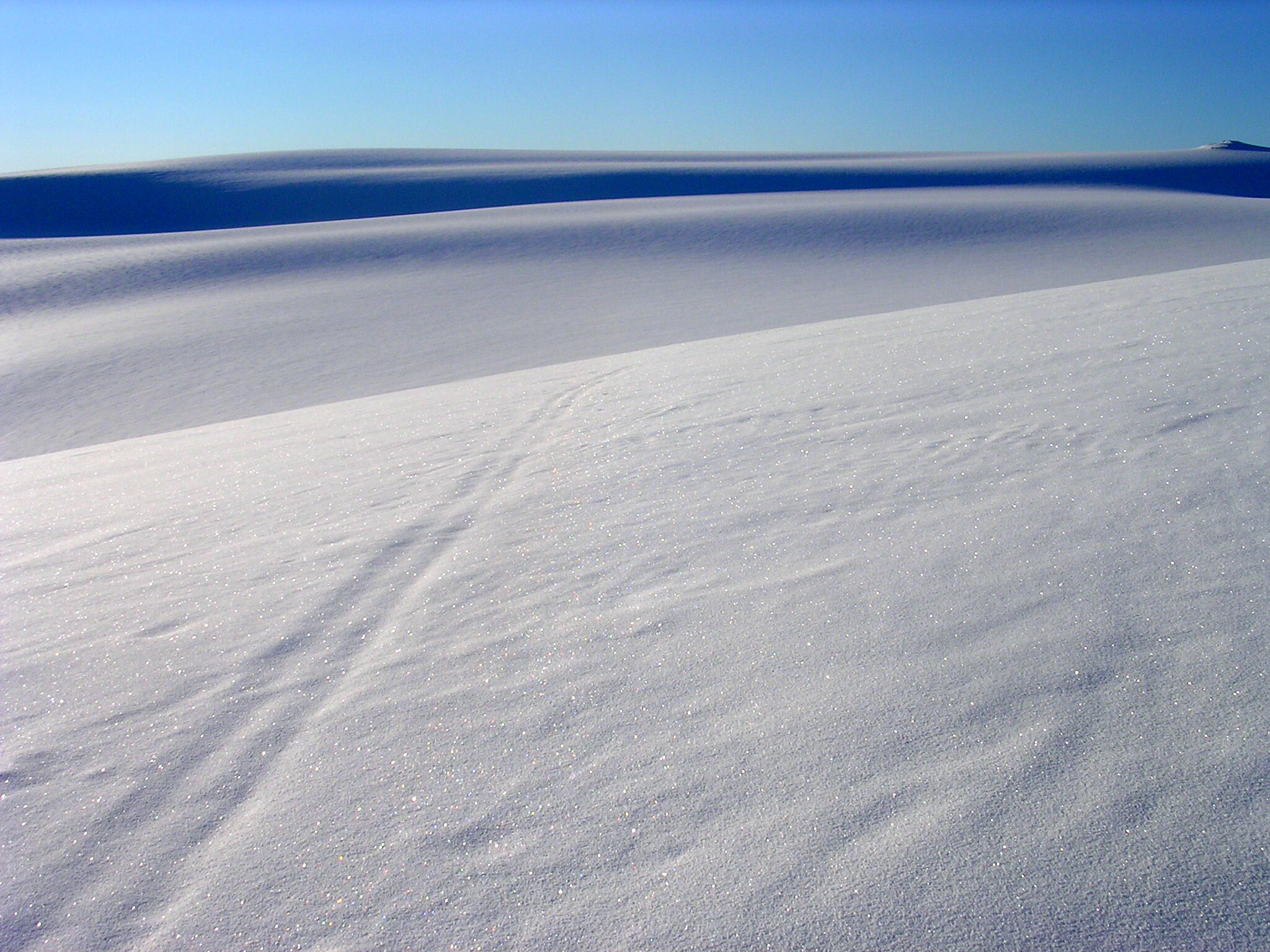 Snow on the glacier Myklebustbreen in Sogn og Fjordane, Norway.